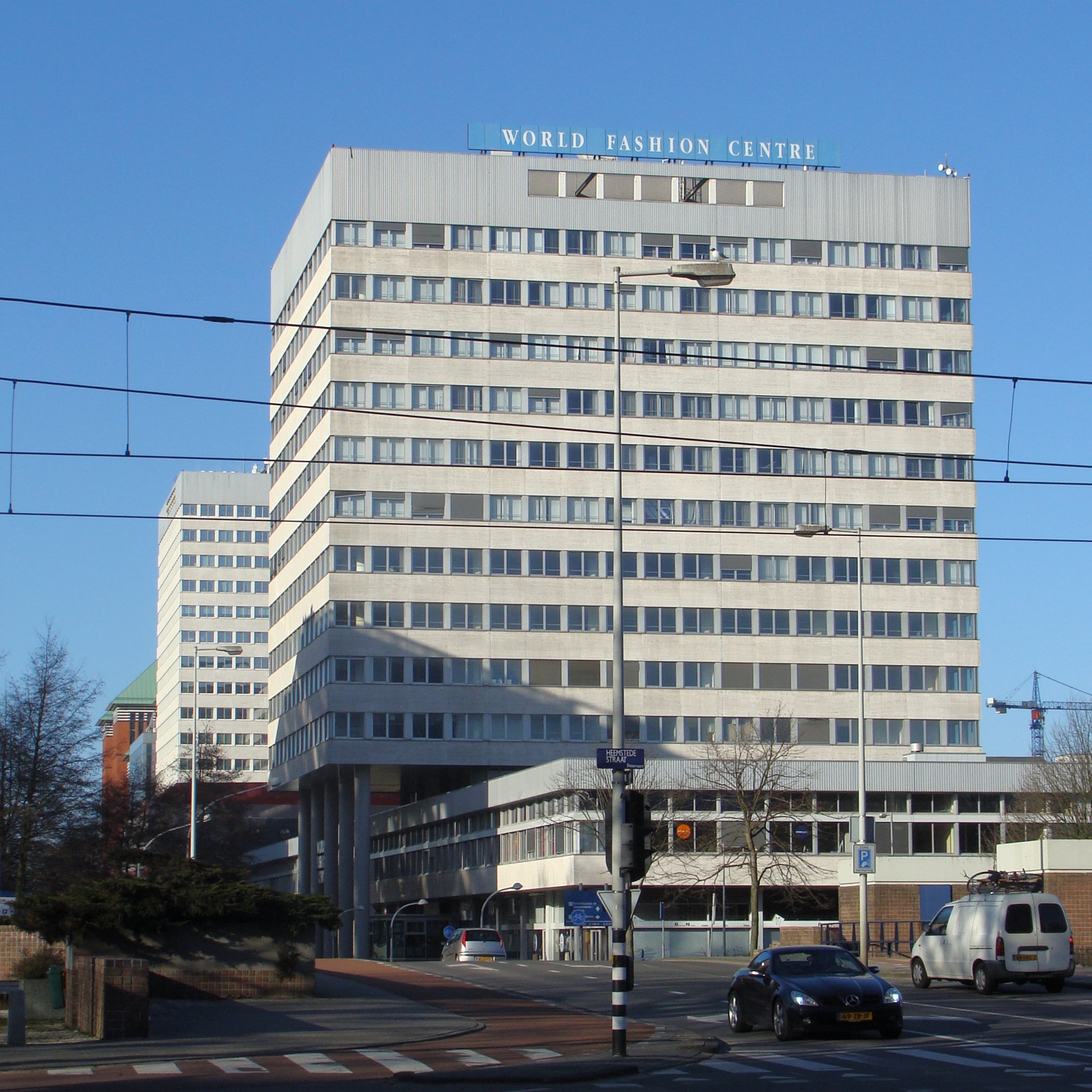 The World Fashion Centre office block at Koningin Wilhelminaplein in Overtoomse Veld, Amsterdam Nieuw-West.